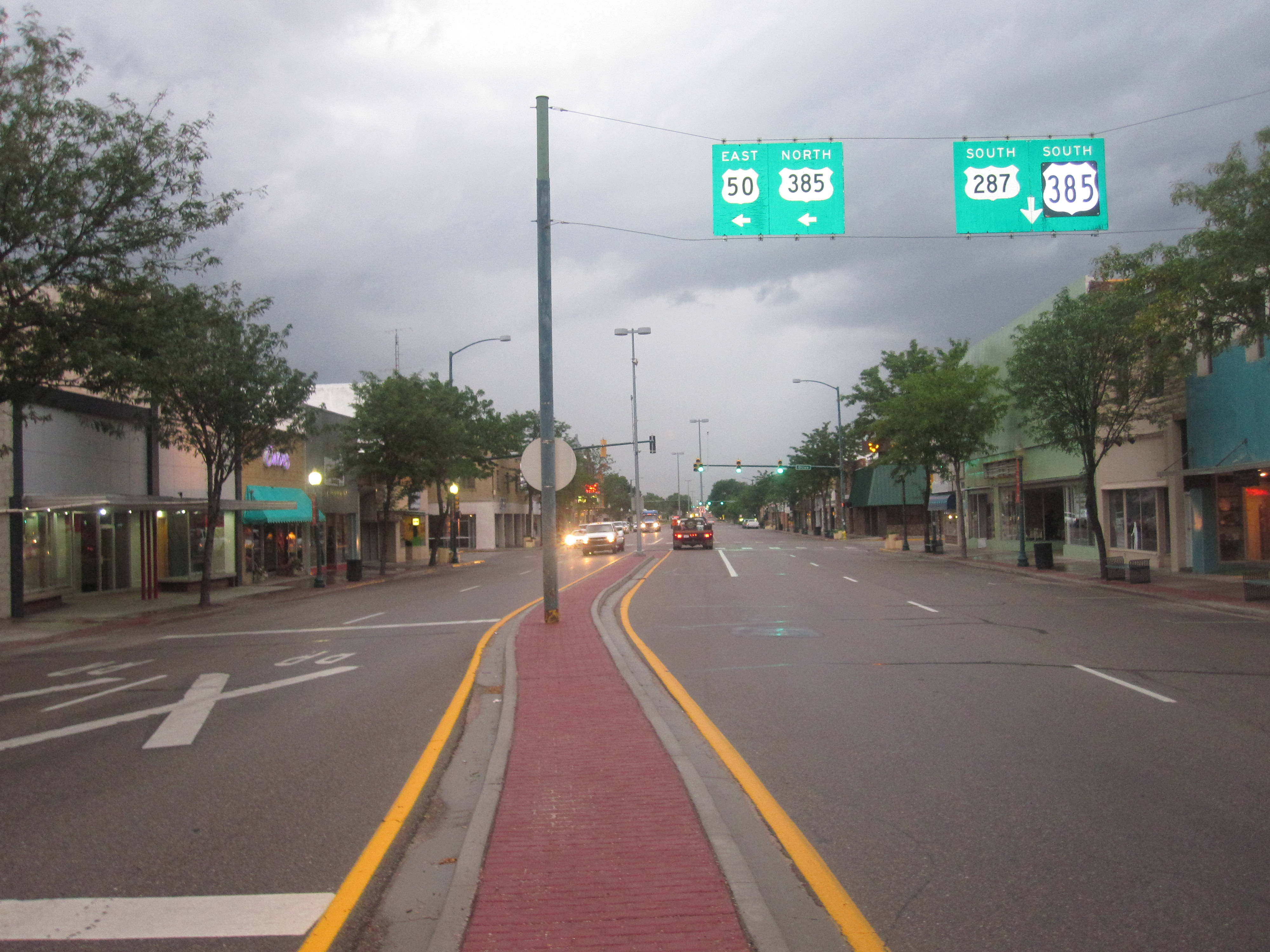 I took photo in Lamar, CO, with Canon camera.